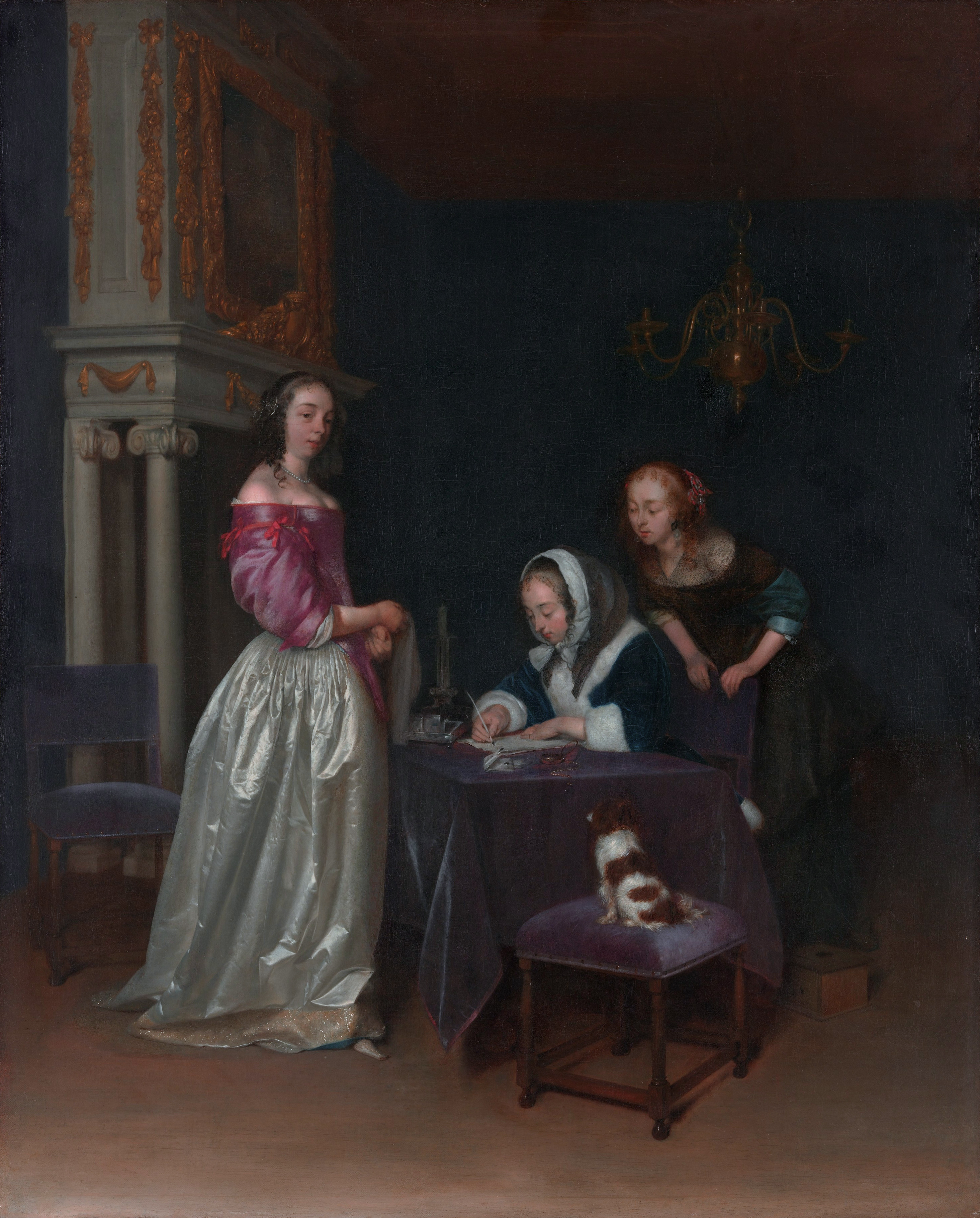 Curiosity oil on canvas 76.2 x 62.2 cm circa 1660–1662